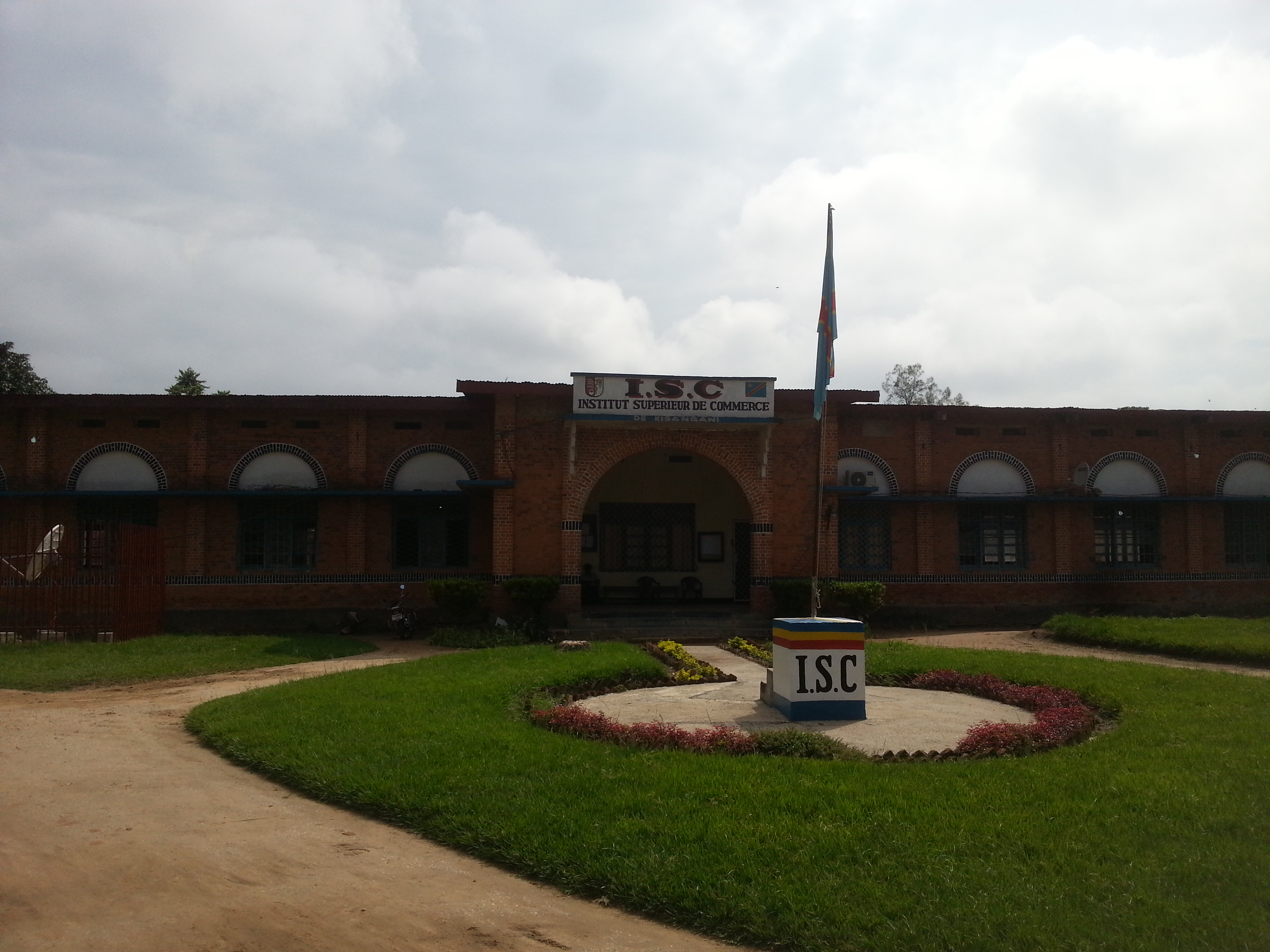 Bâtiment Administratif de l'ISC-Kisangani